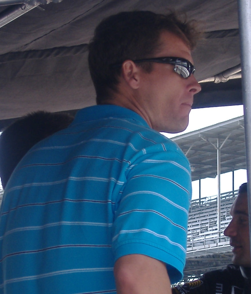 Alex Barron in pit lane at Miller Lite Carb Day for the 2006 Indianapolis 500.